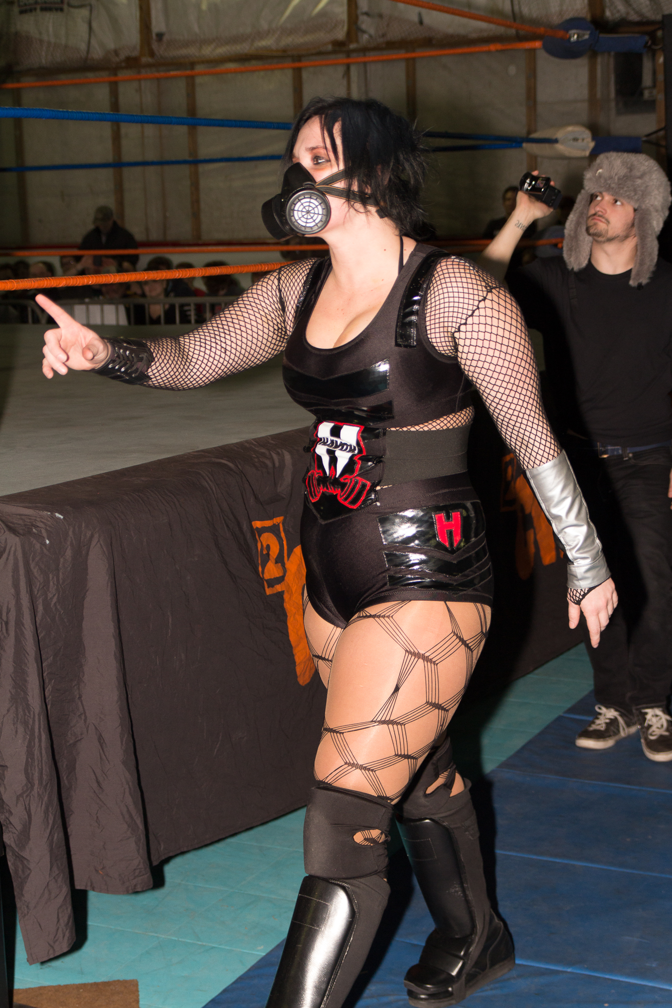 Jessica Havok wearing a gas mask on the ring at a 2CW show in February 2013, in Niagara Falls.